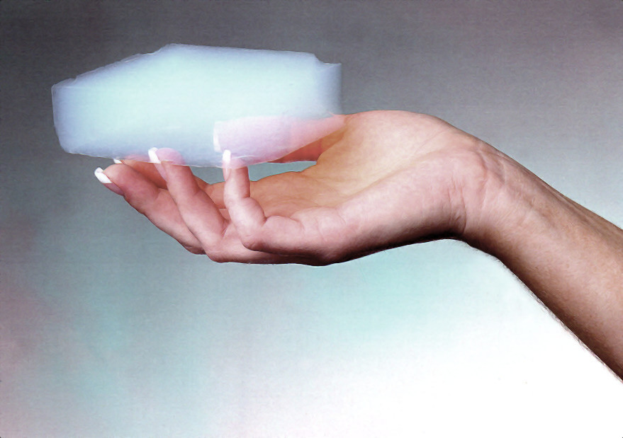 Aerogel: Though with a ghostly appearance like an hologram, aerogel is very solid. It feels like hard styrofoam to the touch.